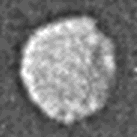 Heavily processed version of image taken by the Voyager 2 spacecraft on January 24th, 1986, from a distance of 493,000 km. The satellite is about 130 km across in this image and the rotation axis is vertical.